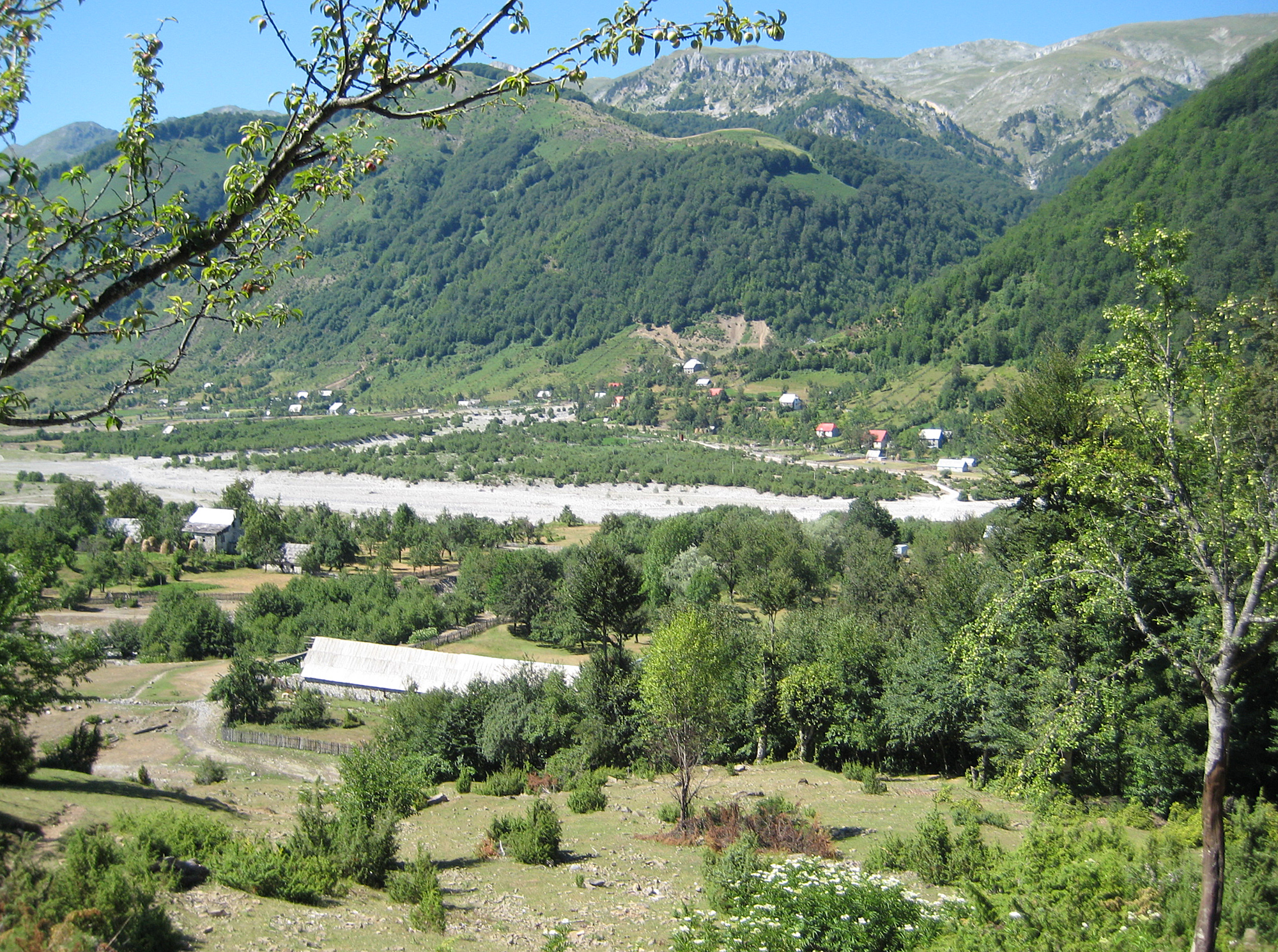 Vermosh, Kelmend, Northern Albania – looking north accross the river to the quarter Velipoja and mountain Maja e Marlulës